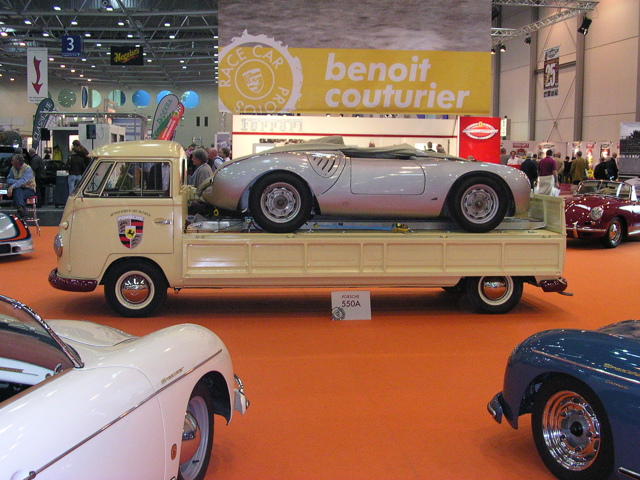 Essen Techno-Classica 2007, Volkswagen T1